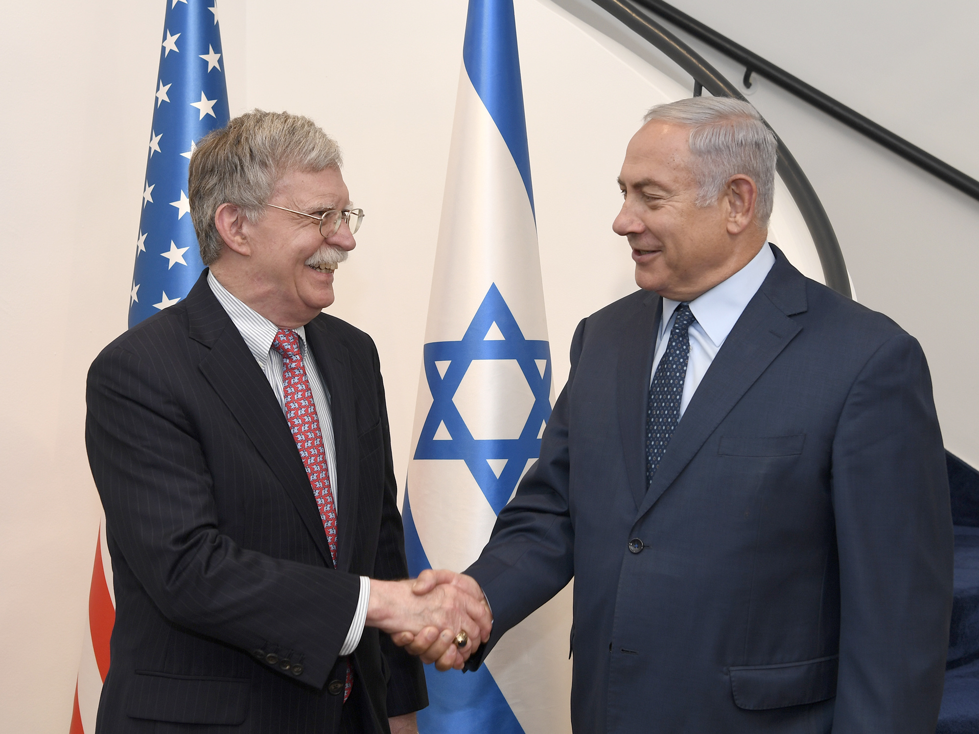 Visit of the U.S. National Security Advisor Ambassador John Bolton Jerusalem, Israel Sunday, August 19 – Wednesday, August 22 Dinner with Prime Minister Benjamin Netanyahu